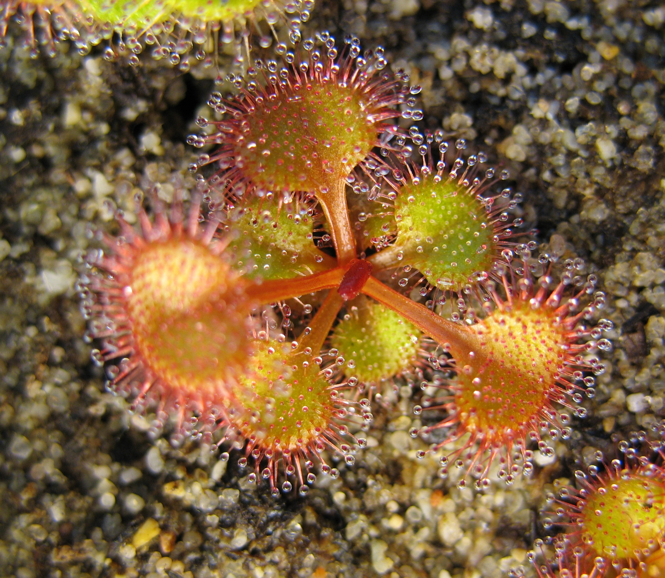 The author licensed this picture in a letter to the uploader as follows: "Ich lizensiere die Bilder [..] unter der GNU-FDL." (Translation: "I license the pictures [..] as GNU-FDL.") Drosera rupicola habit